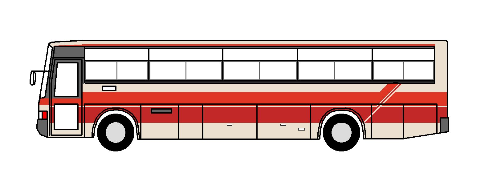 The coloring pattern of the JNR Sasson Highway bus.